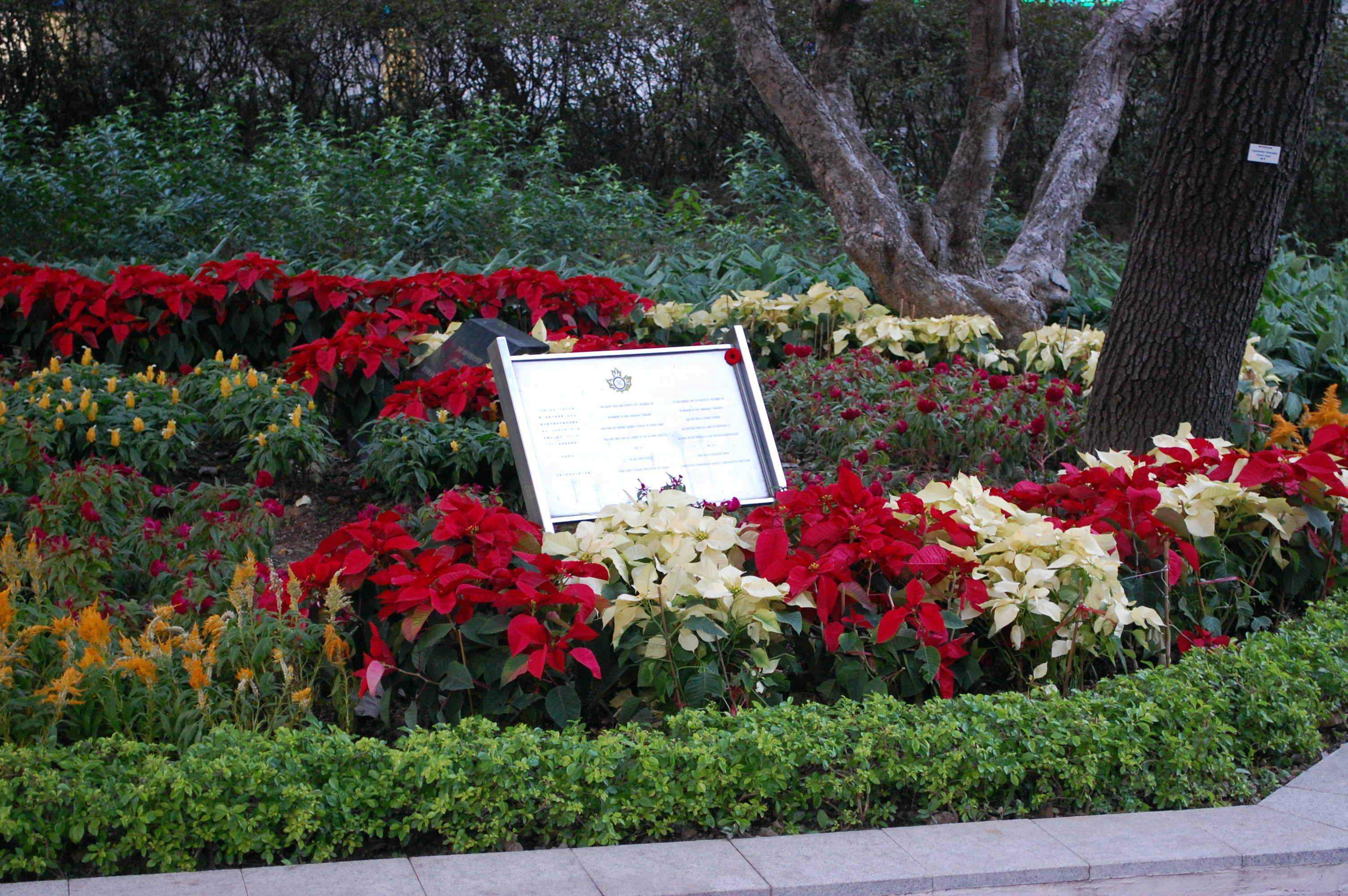 A plaque commemorating the Canadians who died as a result of internment in prisoner of war camps during the Japanese occupation of Hong Kong from 1941-45. Placed by the Hong Kong Veterans Association of Canada alongside two maple trees planted in 5 December 1991 in Sham Shui Po Park, built on part of the site of the former Sham Shui Po Barracks, which served as a POW camp during the occupation. Click for detail